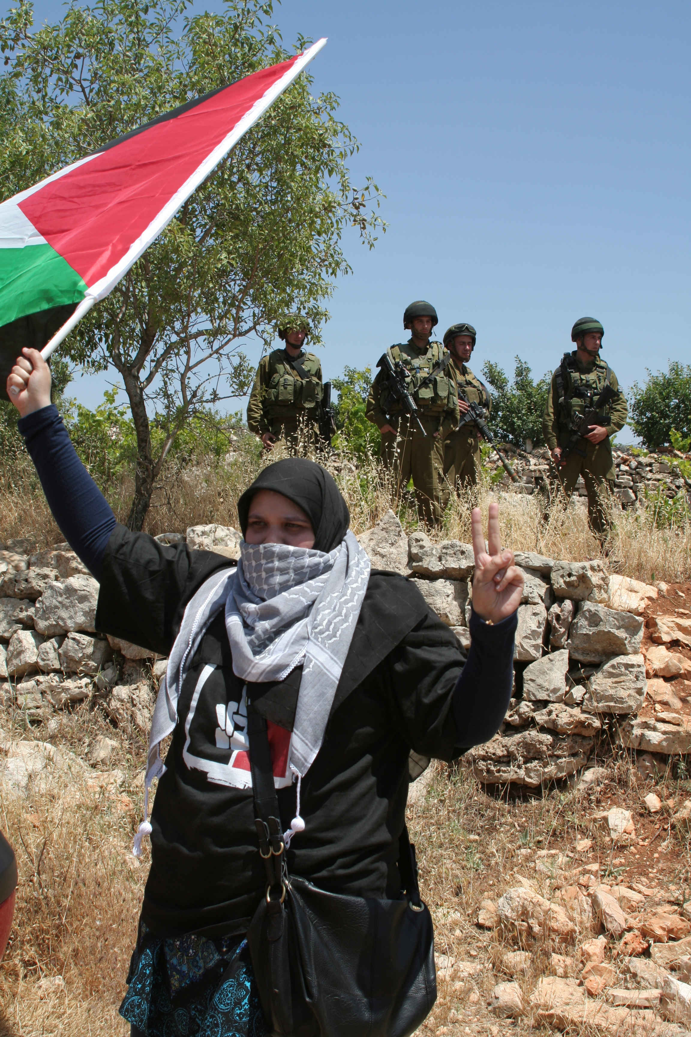 On Saturday, June 4th, a group of 50 Palestinian, Israeli and international activists met in Beit Ommar to commemorate Al Naksa Day (literally, the “day of the setback”,) which for the Palestinian people marks the displacement and occupation that accompanied Israel’s victory in the 1967 Six-Day War.